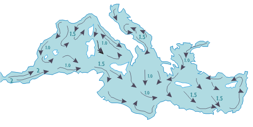 Valery Kulaga